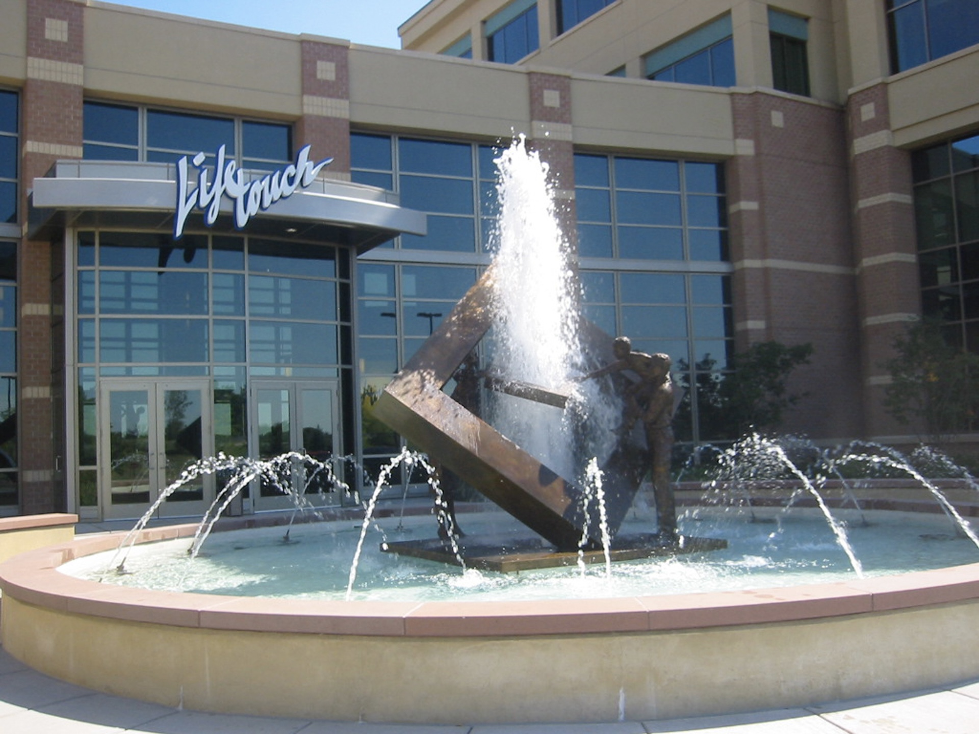 Created for the fountain in front of the offices of Lifetouch Studios in Eden Prarie, MN, this sculpture depicts a family of five holding a picture frame.